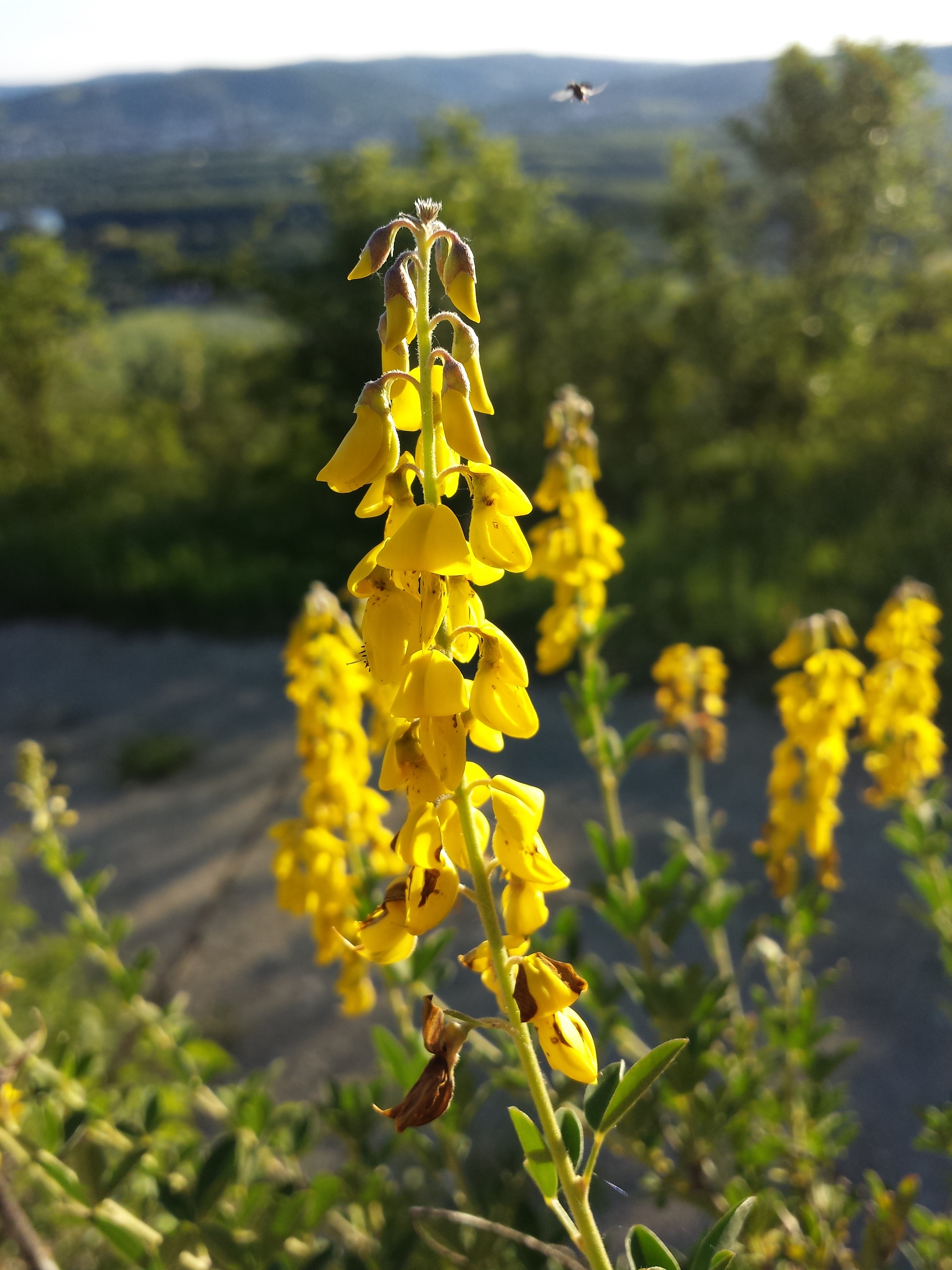 Florescence Taxon: Cytisus nigricans (sensu Fischer et al. EfÖLS 2008 ISBN 978-3-85474-187-9) Location: west slope of Bisamberg, district Korneuburg, Lower Austria - ca. 300 m a.s.l. Habitat: rock steppe (Flysch)